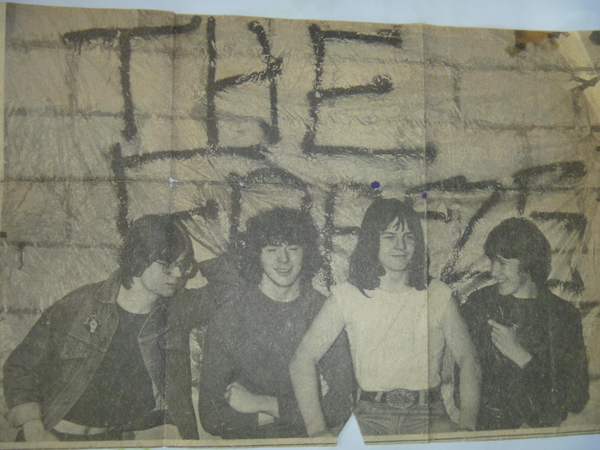 The Freeze